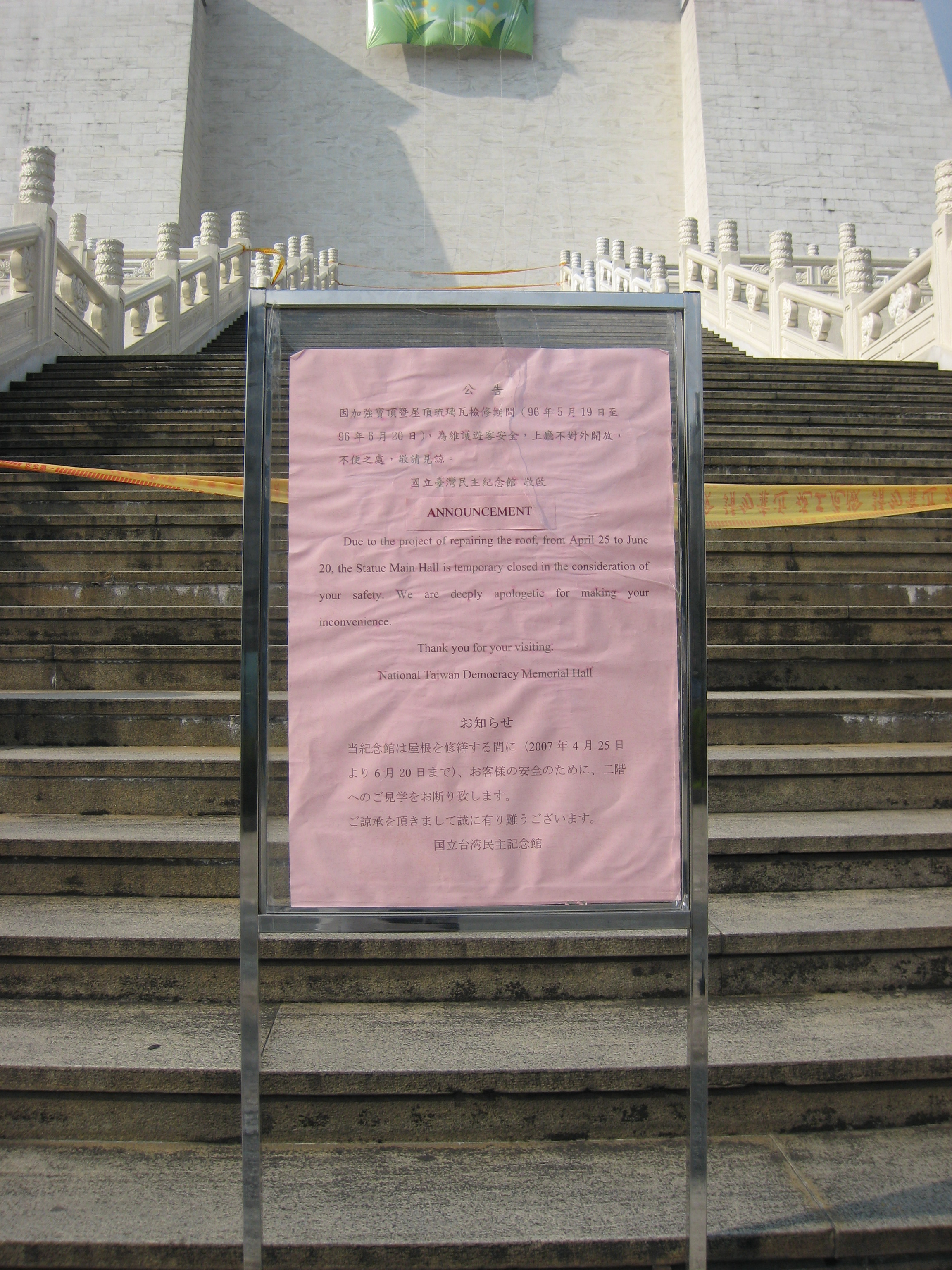 A sign announces the official reason for closing the main chamber of the Chiang Kai-shek Memorial Hall during the renaming controversy.